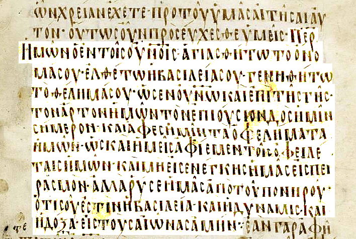 Lord's Prayer